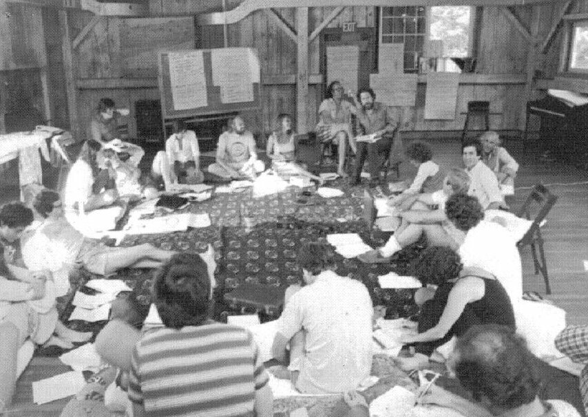 The governing council of the New World Alliance meets in Phoenicia, New York, September 7, 1980. The Alliance was America's first national "New Age" or "transformational" political organization. From left to right, the back row consists of UC Berkeley professor Leonard Duhl; New Age Politics author Mark Satin; San Luis Valley Energy Center co-director Bob Dunsmore; Sirius Community co-founder Corinne McLaughlin; World Future Society journal editor Michael Marien, and Human Scale author Kirkpatrick Sale (speaking).